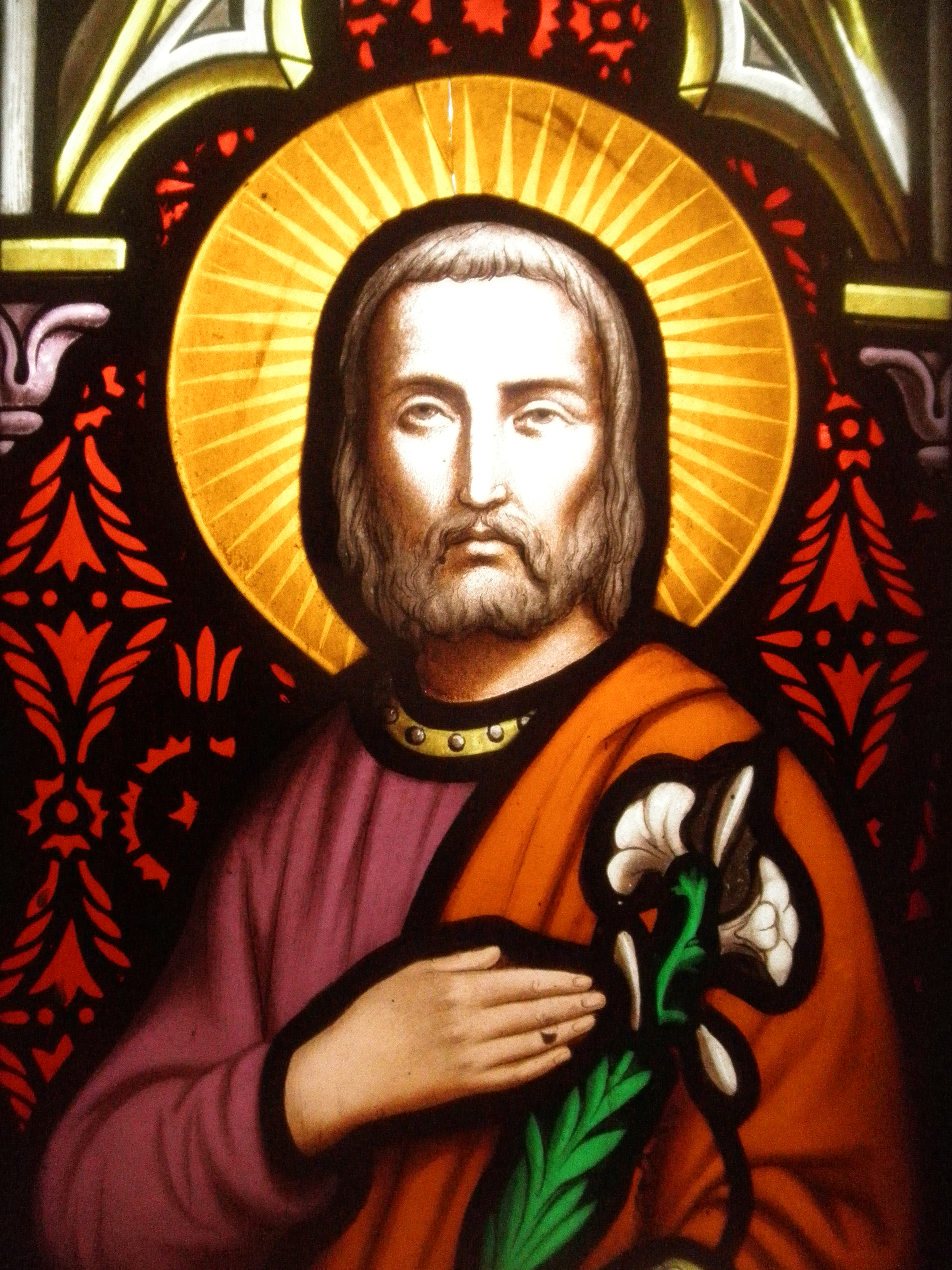 vitrail 1861